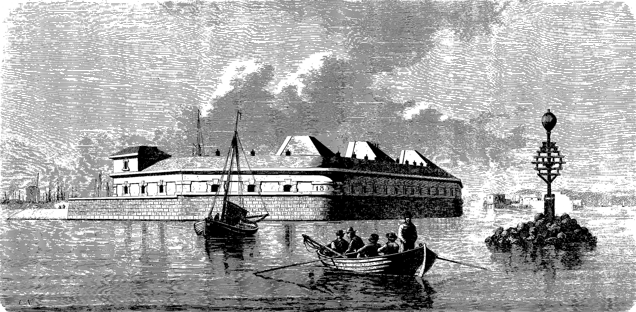 The seaward defences of Copenhagen were augmented in 1859 by the fort Prøvestenen, completed in 1863. This drawing by Carl Neumann was featured in the September 20 1863 issue of Illustreret Tidende.